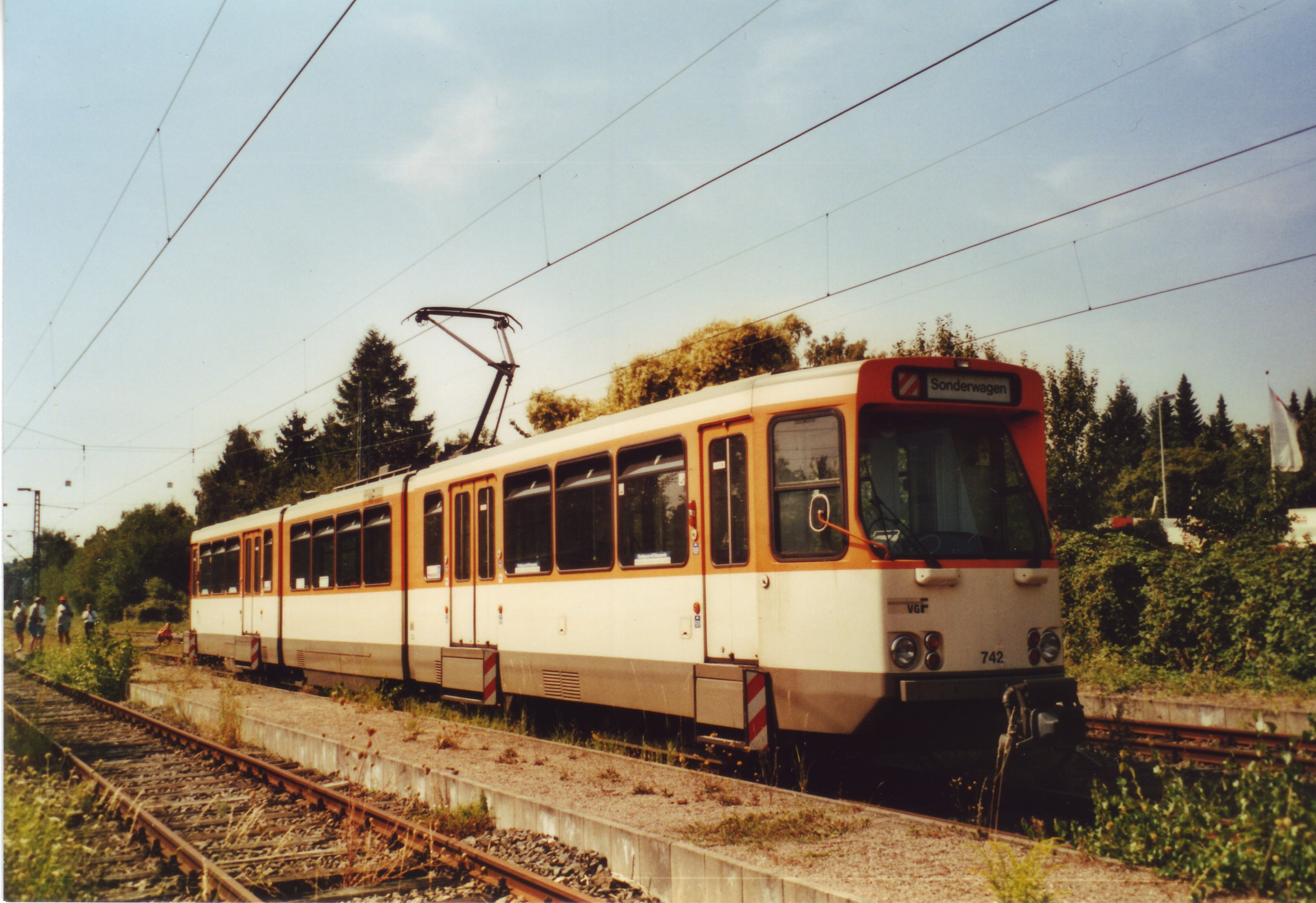 Ptb-railcar 742 of the VGF in Oberursel goods station, August 2001